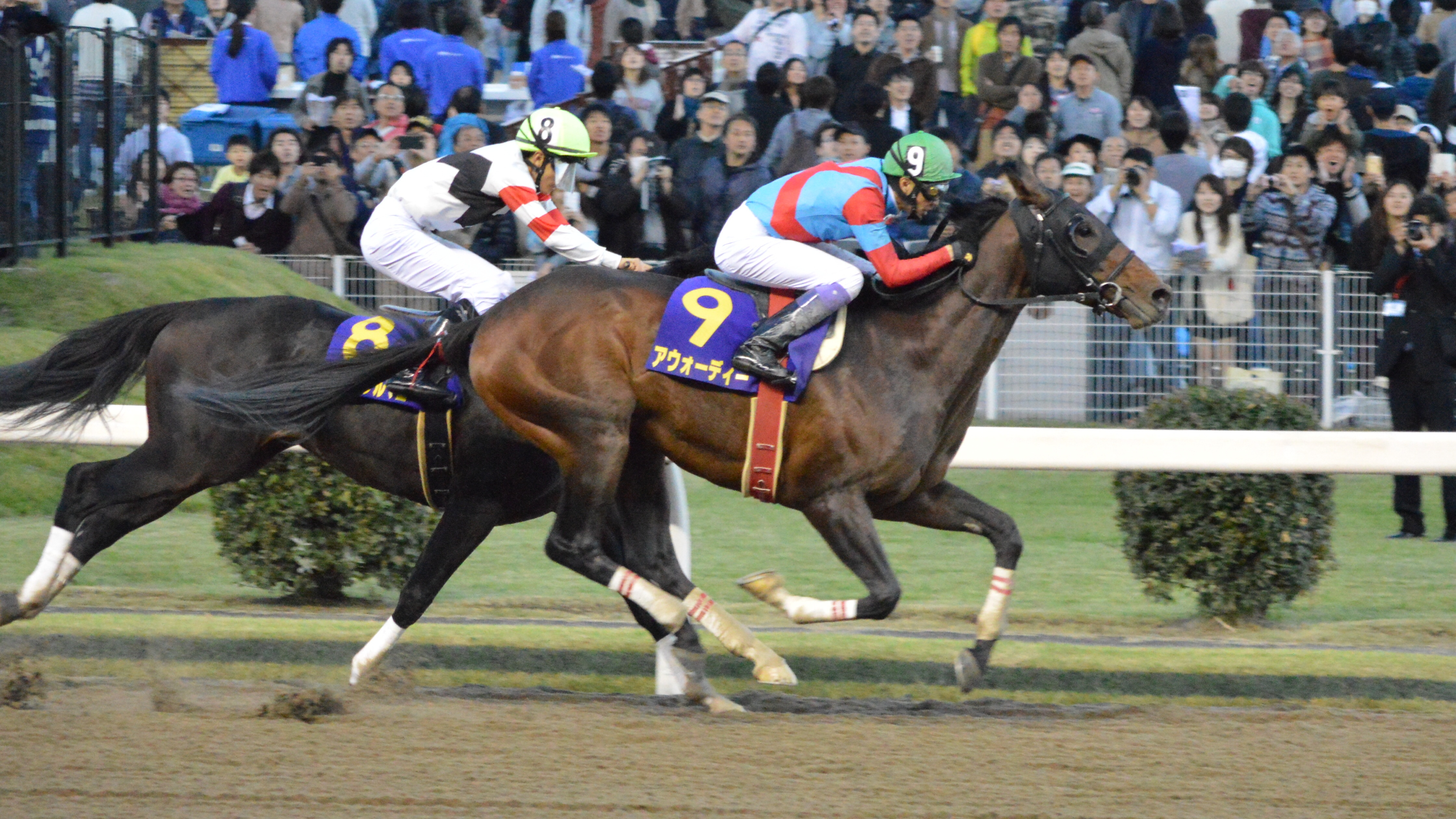 Japanese race horse Awardee at Kawasaki racecourse. Kawasaki (JPN) 3 Nov 2016 JBC Classic (Local Grade 1) (Dirt) (3yo+) 1m2 1/2f Muddy RankHorse NameOddsAgeWgtJockeyTrainer1stAwardee (USA)7/5H69-0Yutaka TakeMikio Matsunaga2ndHokko Tarumae (JPN)56/10H79-0Hideaki MiyukiKatsuichi NishiuraOthers are omitted. (12 horses entered in a race.)